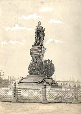 Antique Post Cart with view of monument to Ekaterina the Great in Yekaterinodar, Russia.